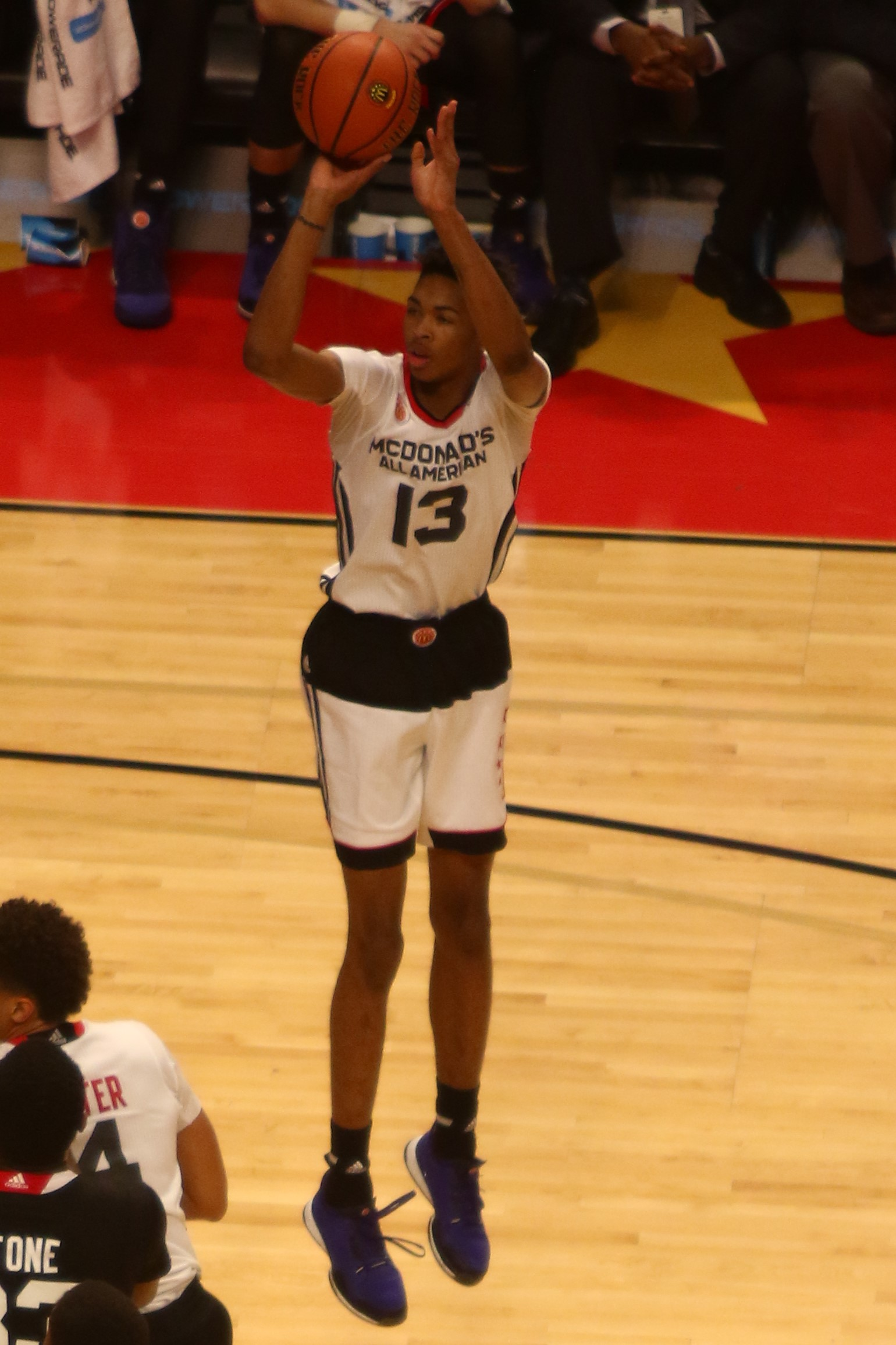 Brandon Ingram in the w:2015 McDonald's All-American Boys Game